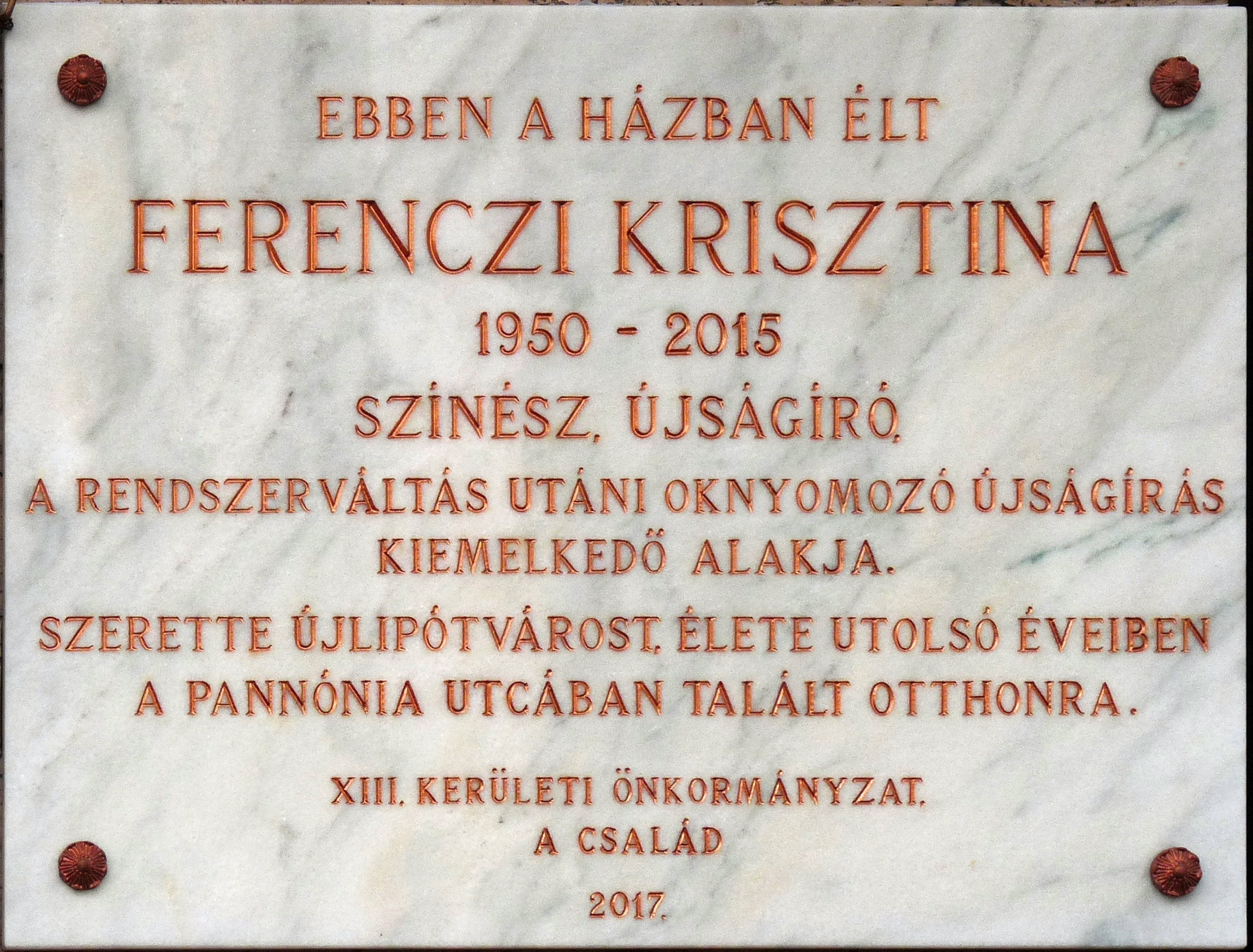 Commemorative plaque to Mrs. Krisztina Ferenczi (1950-2015) Hungarian actress, writer and journalist. It was affixed to the wall of the artist's former home December 8, 2017 on the occasion of his 67th birthday. (Budapest, District XIII, Pannónia Street 15)